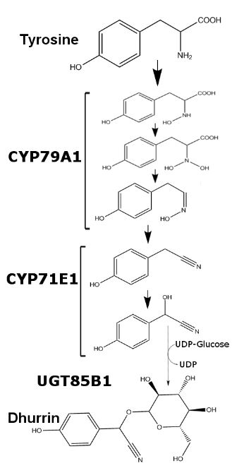 A summary of dhurrin's synthesis in Sorghum plants.